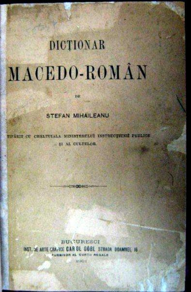 Dictionar Macedo-Roman